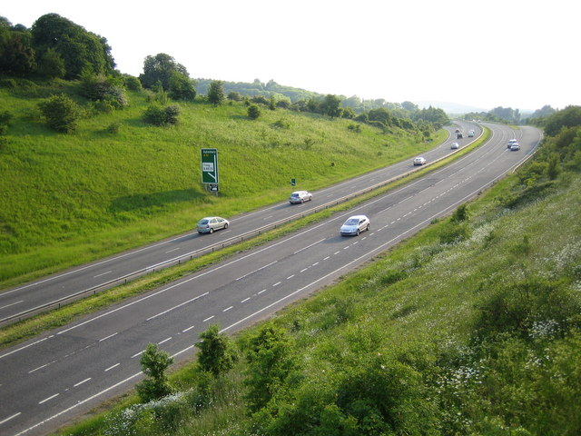 A41 near Tring – This view was taken from the footbridge that carries the Ridgeway footpath over the road. The westbound exit to Tring is just visible in the distance.